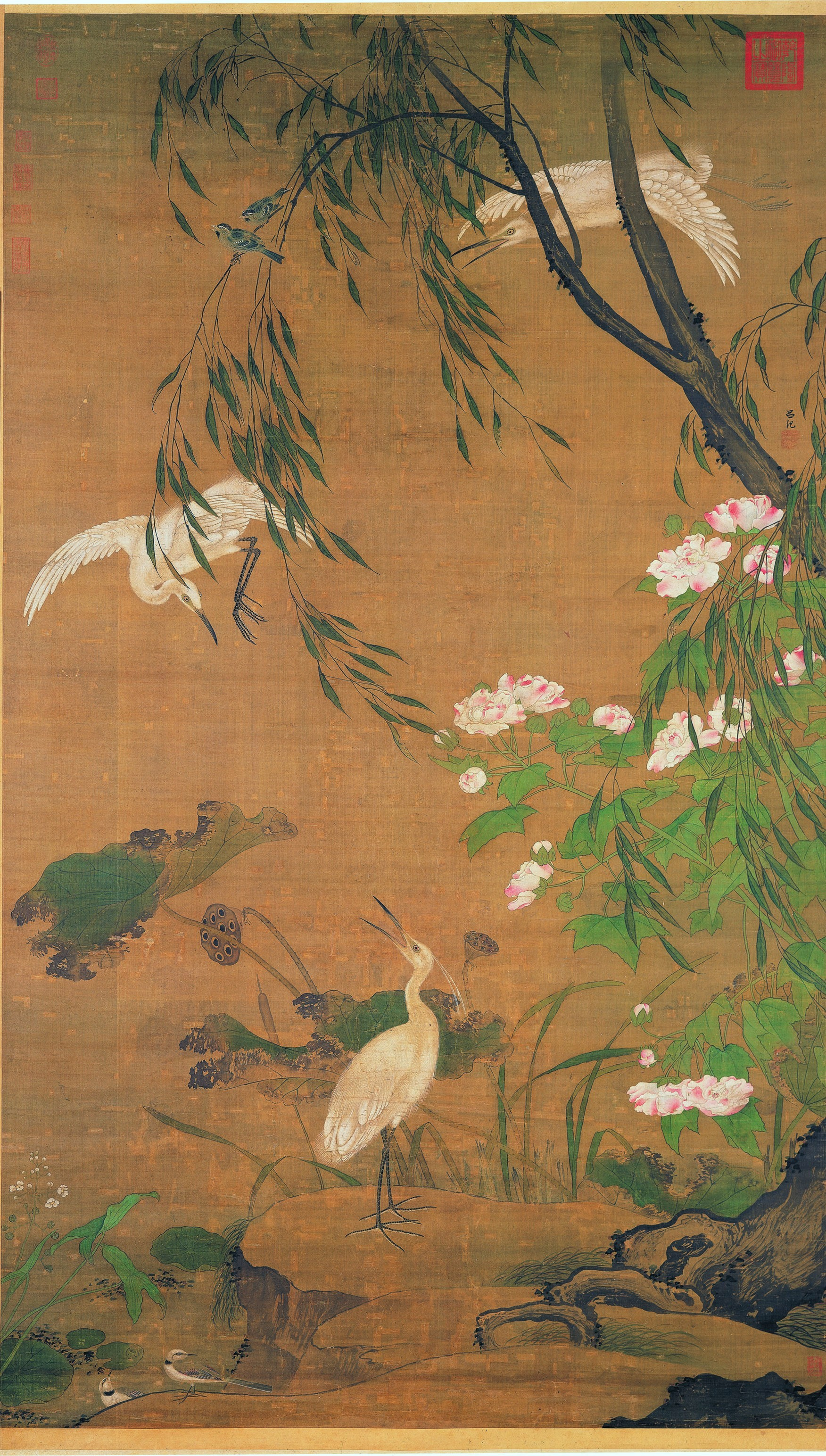 Lü_Ji_Autumn_Egrets_and_Hibiscus._National_Palace_Museum_Taipei